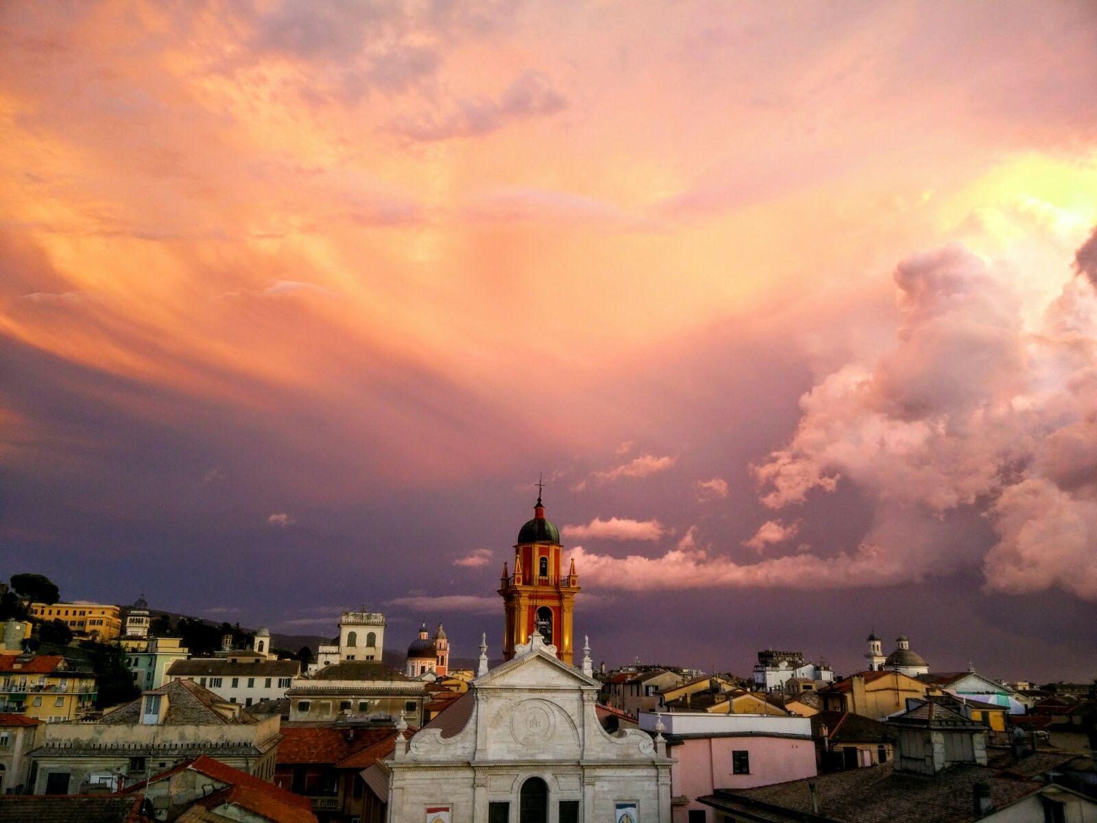 Chiesa di Rupinaro